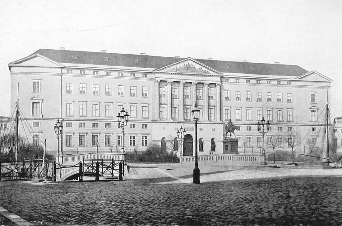 The second Christiansborg Palace before it was ruined by a fire in 1884. The equestrian statue was erected 1873 and Holmen's Bridge by Vilhelm Dahlerup followed in 1878.